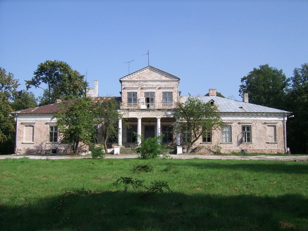 Palace in Żelechów, Poland